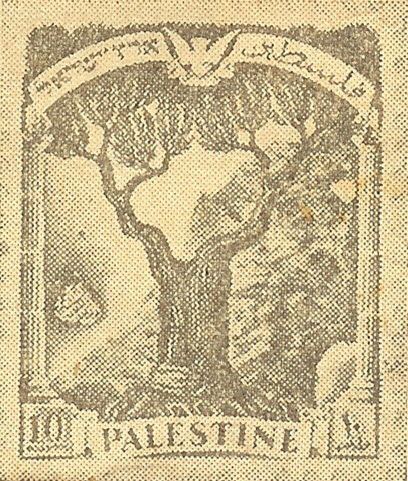 EI - Mandate - unaccepted 3